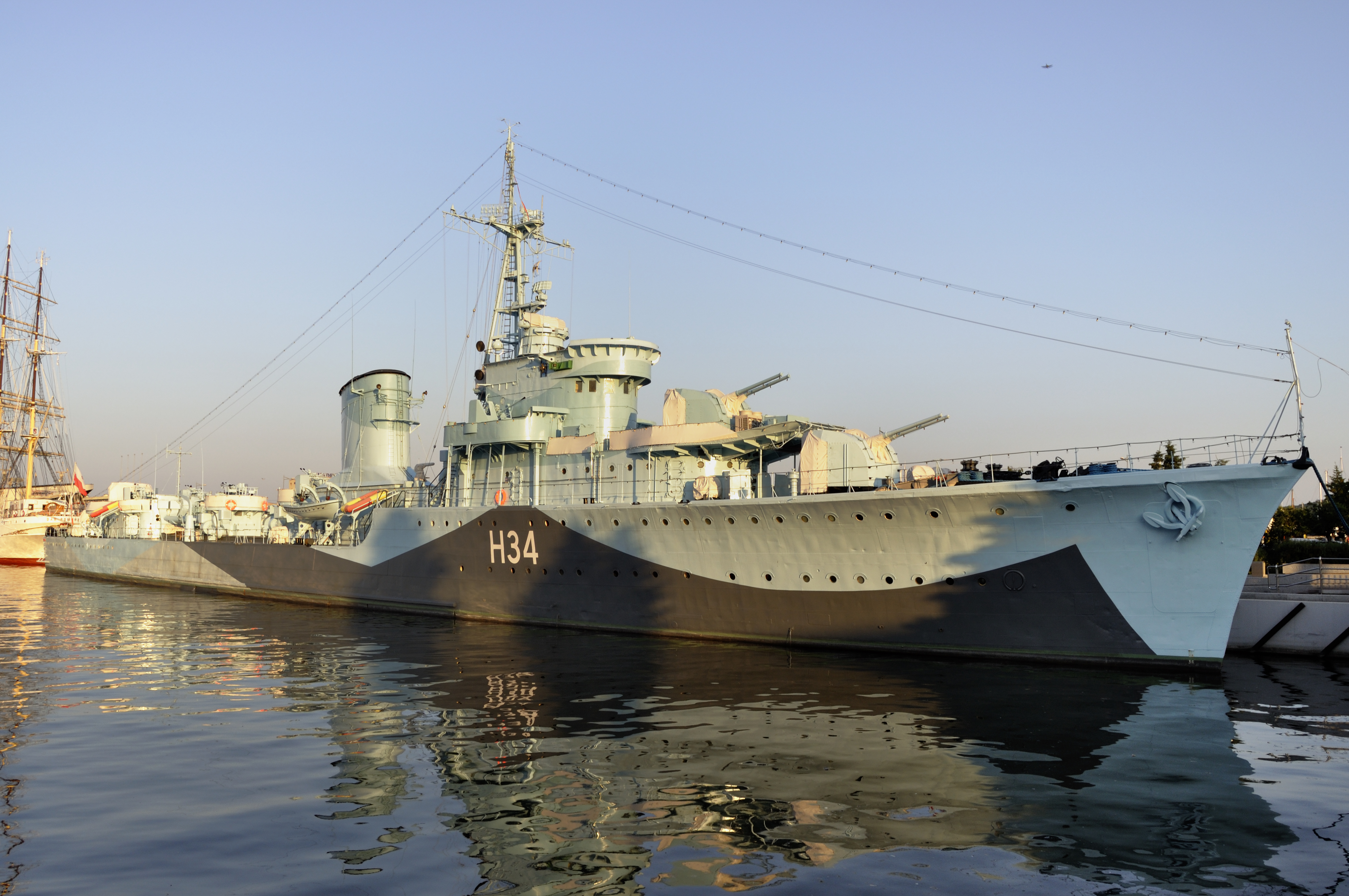 Picture taken in Gdynia after Wikimania 2010 conference.